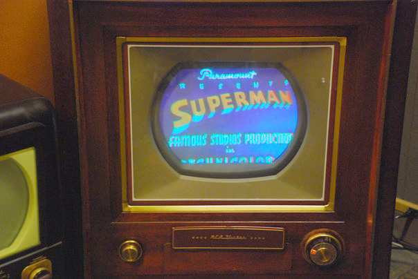 CT-100 at the American Museum of Radio And Electricity playing Superman.